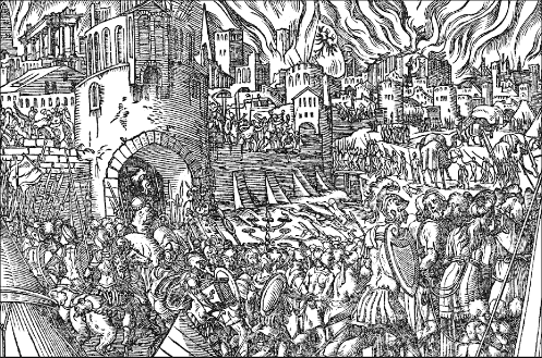 Woodcut depicting the first siege of Krujë 1450